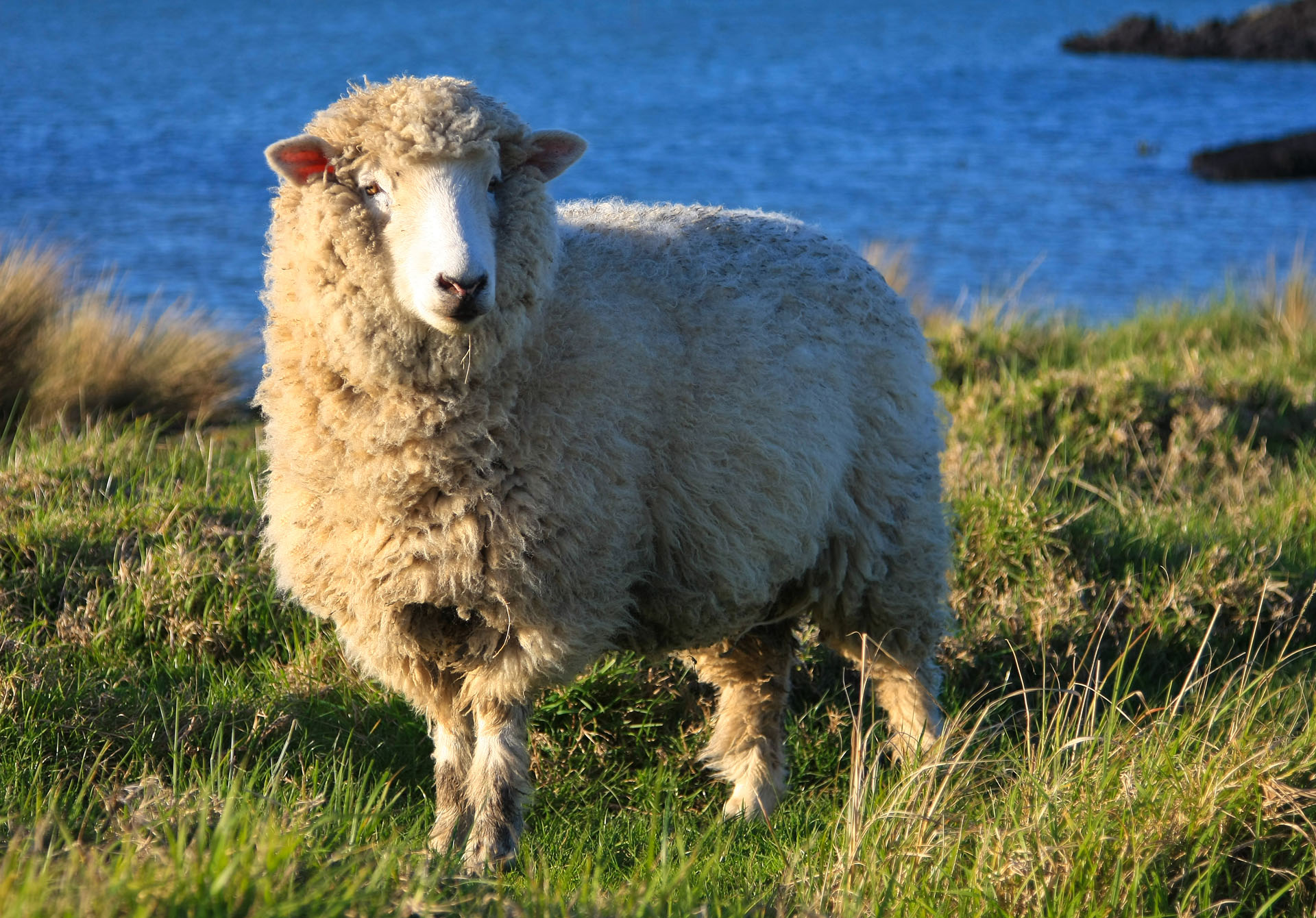 A sheep at Ambury Park, Auckland.